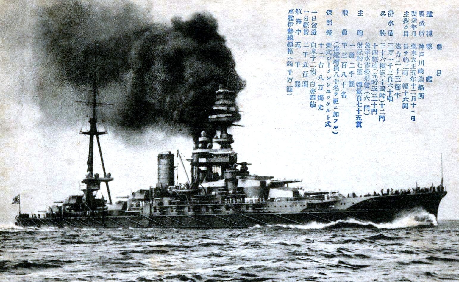 Ise is the Imperial Japanese Navy's first Ise-class battleship.